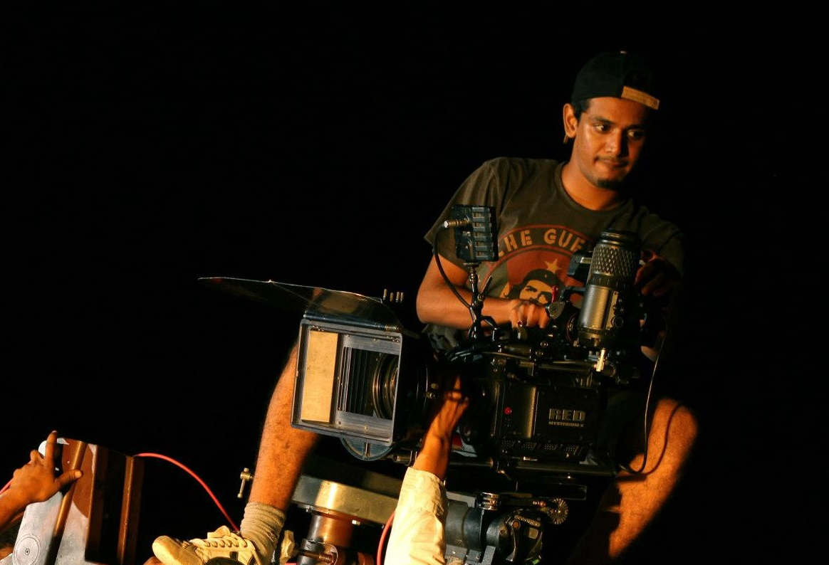 On sets